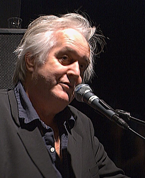 The author Henning Mankell lecturing at Parkteateret during the seminar about the author Tron Øgrim